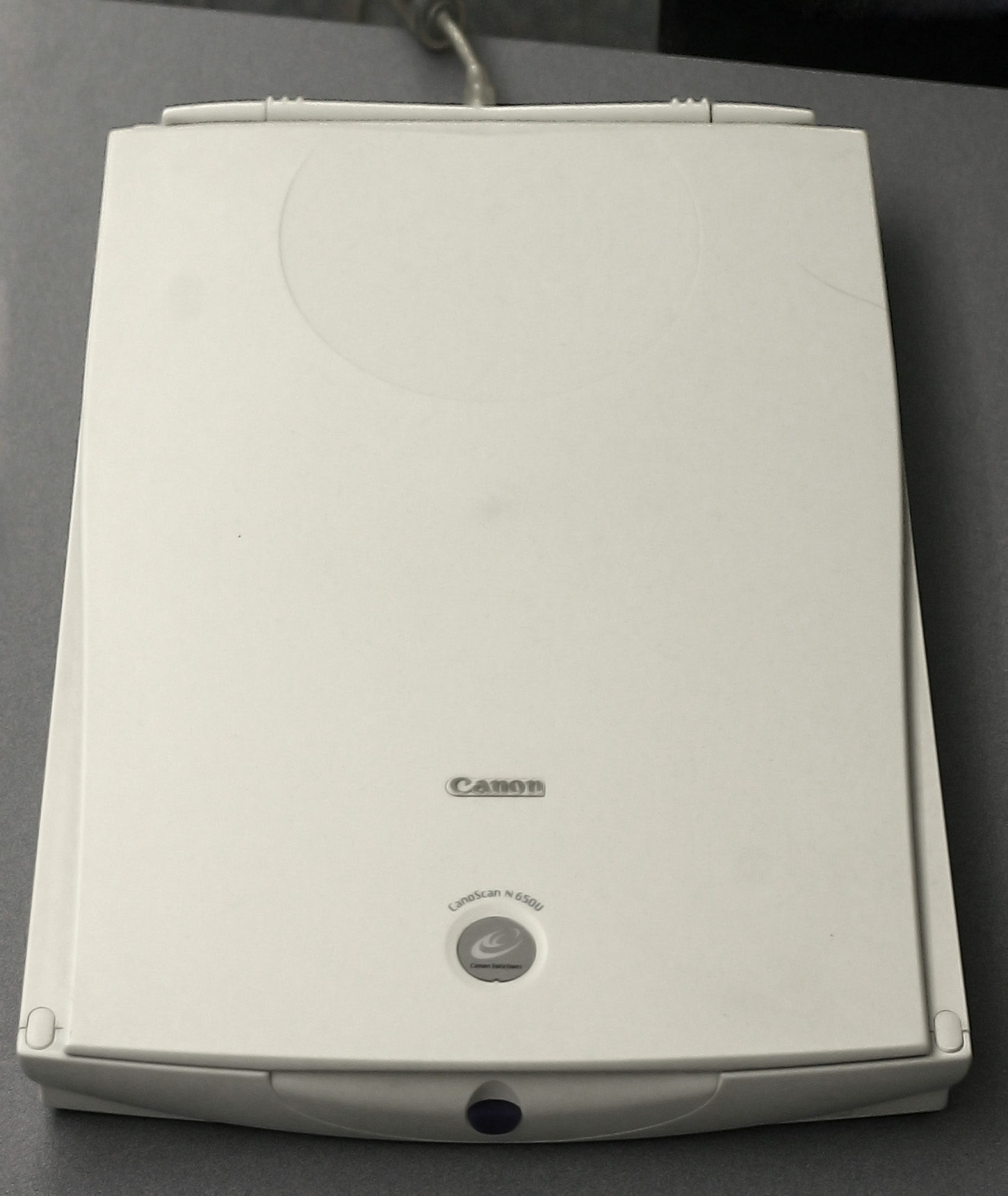 Canon CanoScan N 650U Image Scanner. This is an example of a flatbed reflective scanner.